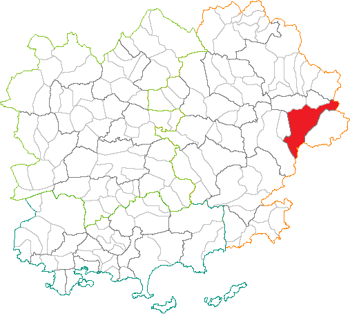 administrative map